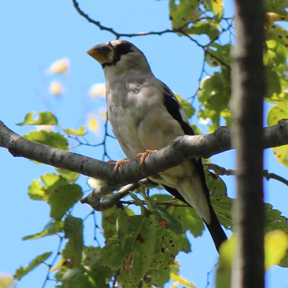 Eophona personata personata (Japanese Grosbeak), in Japan.